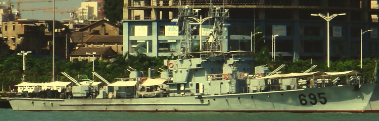 Hainan-class patrol craft of China. Picture shot by Lukacs.